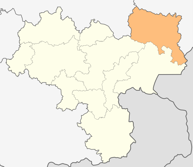 Map of Topolovgrad municipality, Haskovo Province